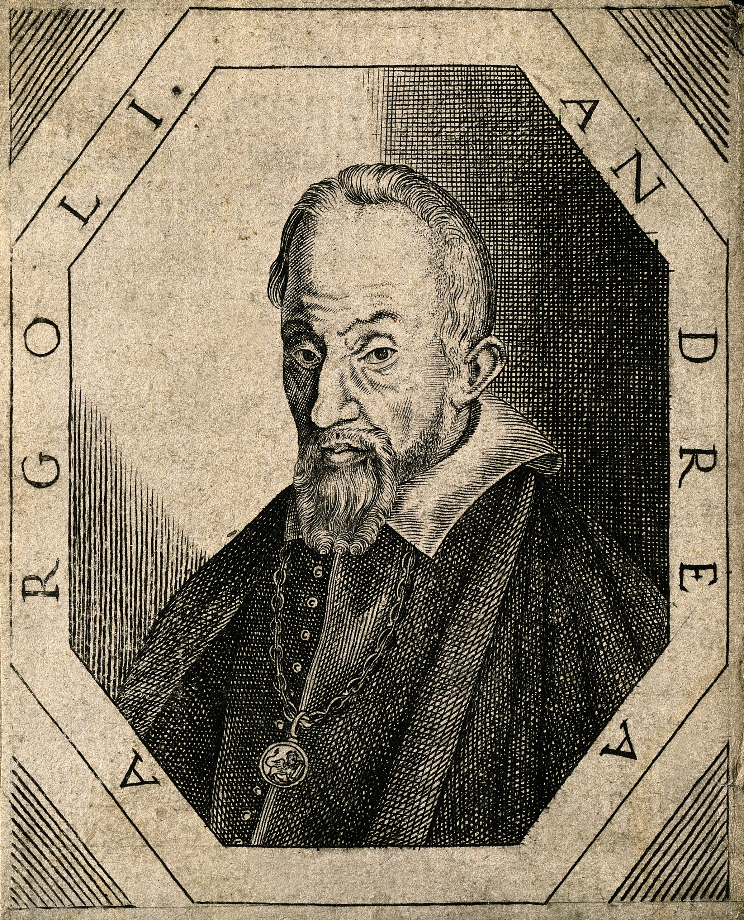 Andrea Argoli. Line engraving, 1666. Iconographic Collections Keywords: portrait prints; Andrea Argoli; engravings; argoli, andrea, 1570-1657